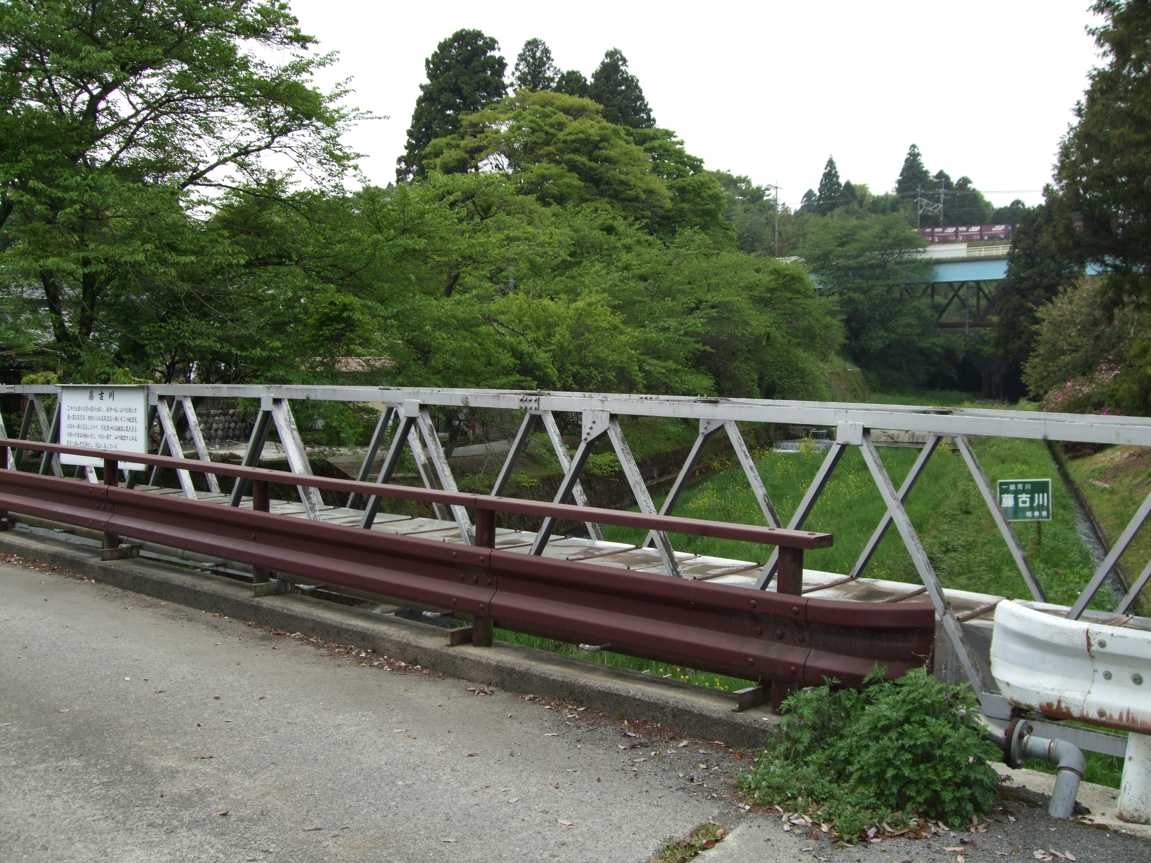 Fujiko river in Gifu prefecture,Japan